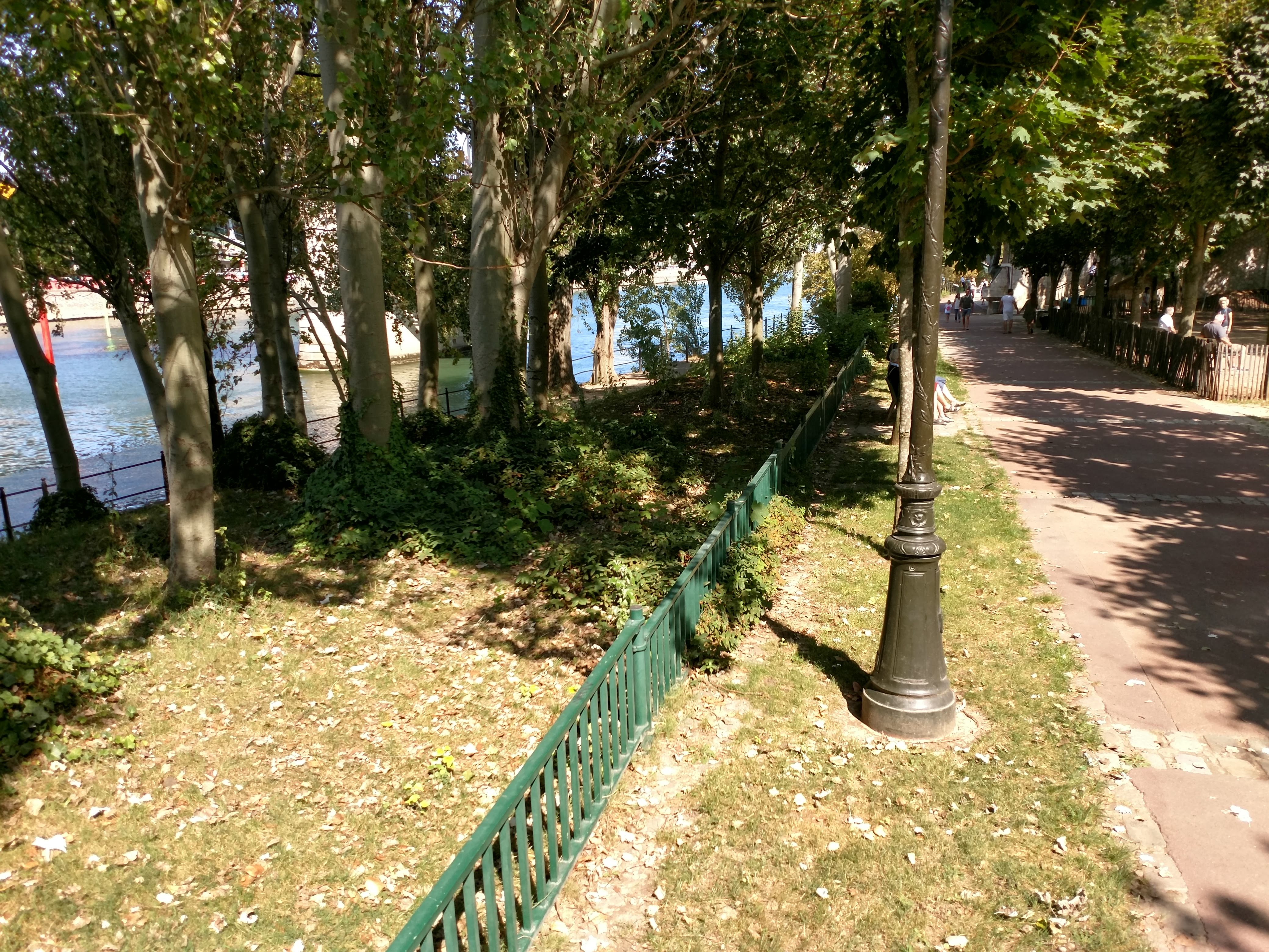 Current view from where the painting was rendered